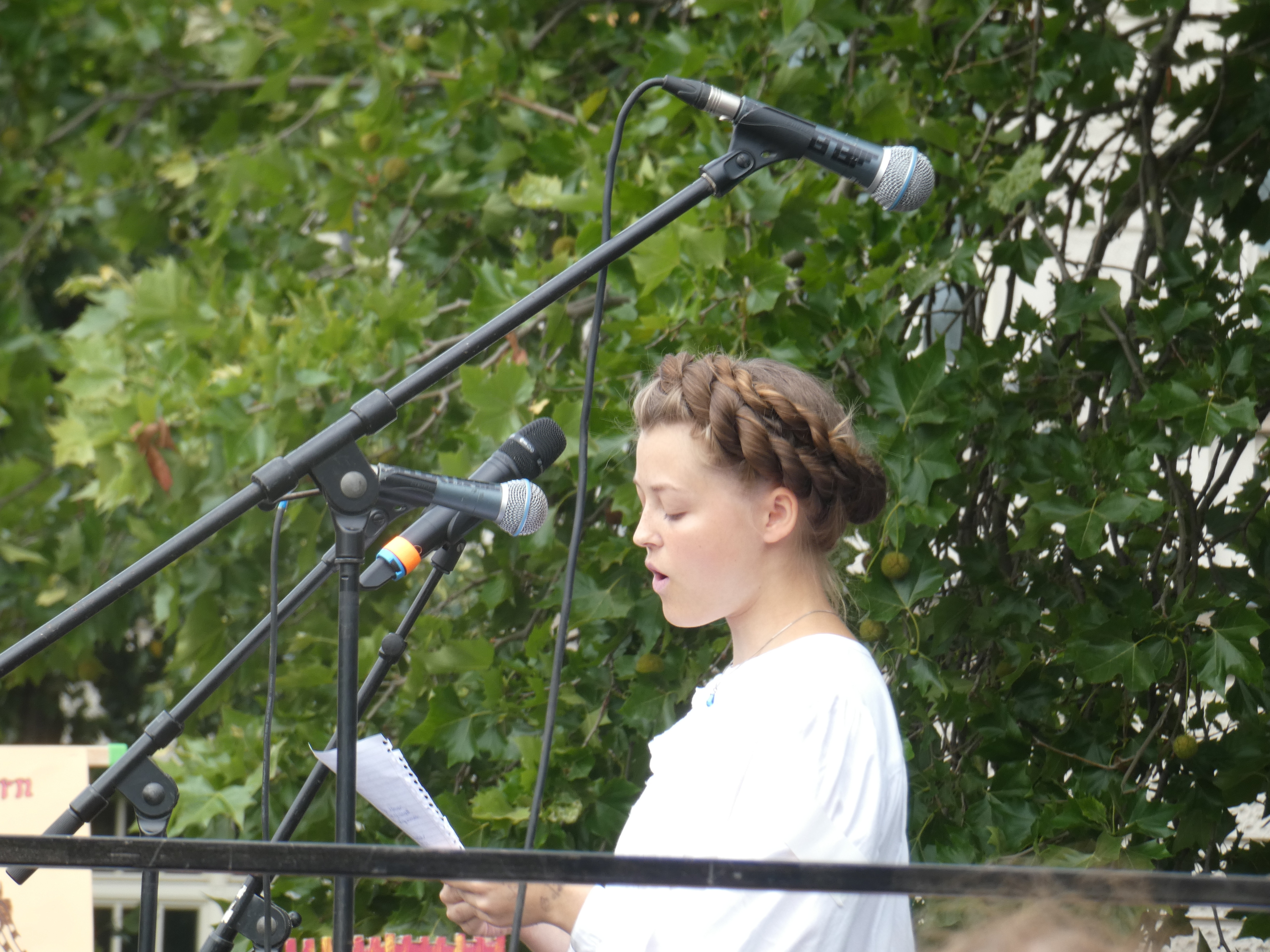 School strike for climate in Berlin 2019-07-19